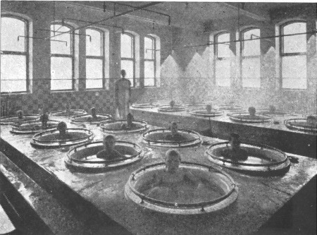 Kerttulin koulu in Turku, completed in 1912, was modelled after a new school in Malmö, Sweden, to incorporate bathing facilities.